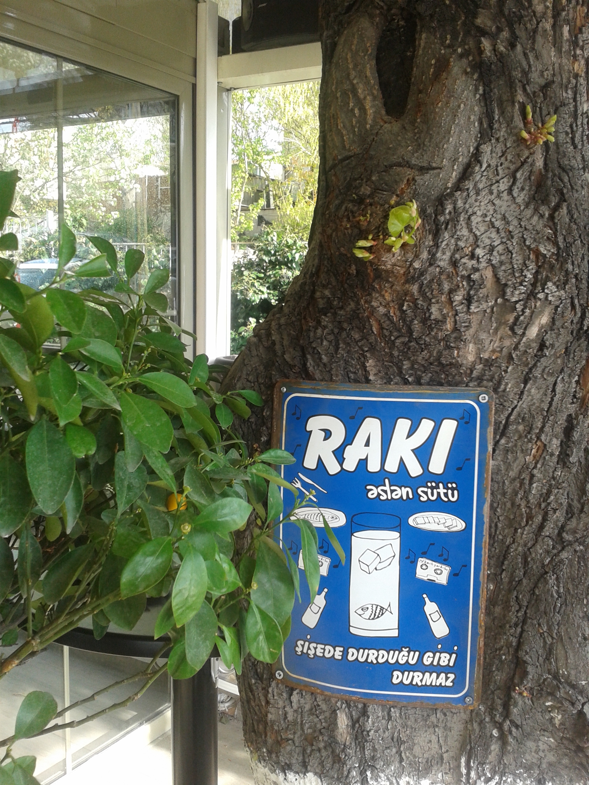 Rakı is also called "aslan sütü" (lion's milk) in Turkey. Warning: "Won't stay as it is in the bottle". Restaurant wintergarden in Ankara